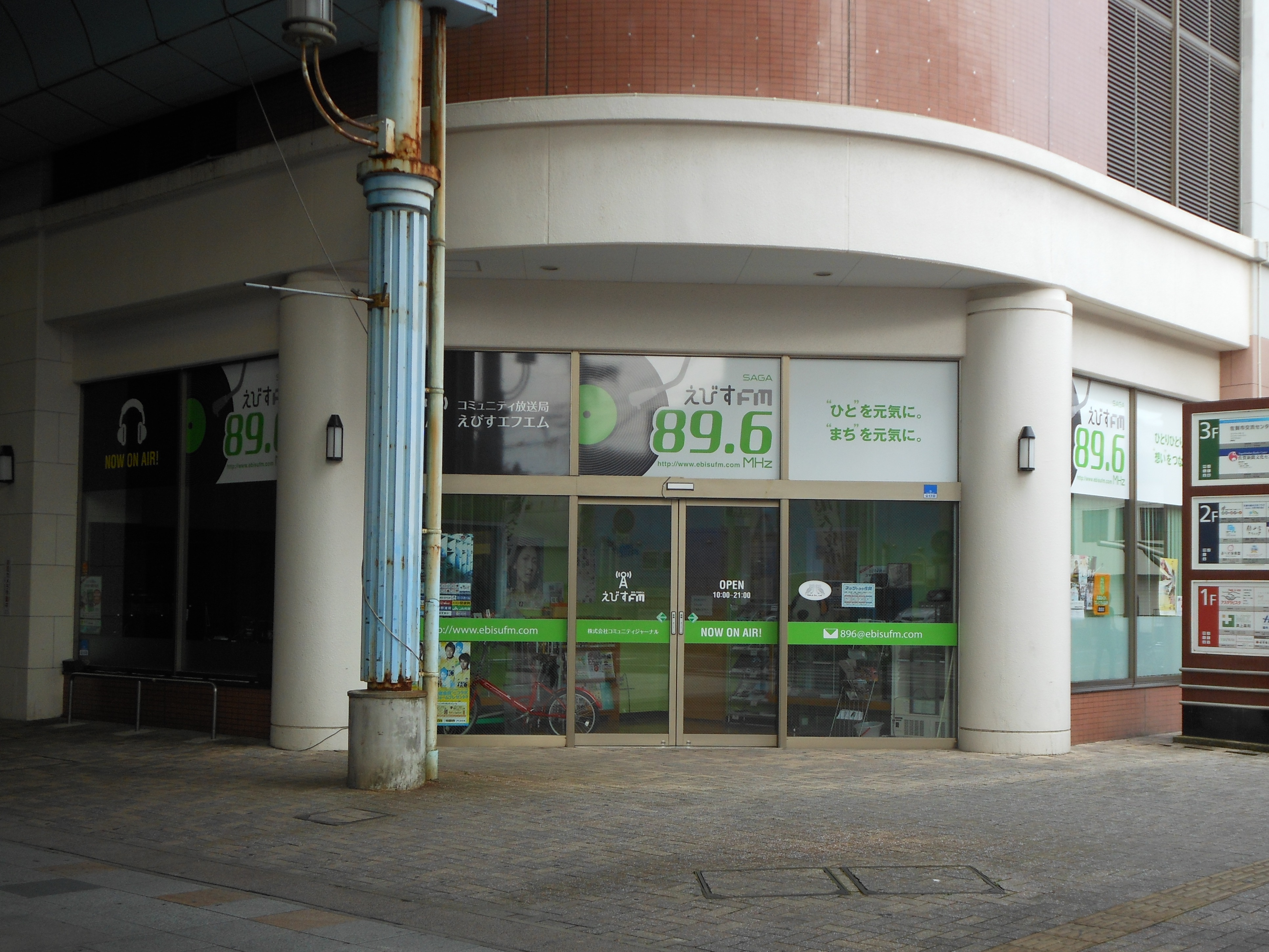 Broadcasting Studio of Ebisu FM, a community FM broadcasting company of Saga prefecture, Japan.